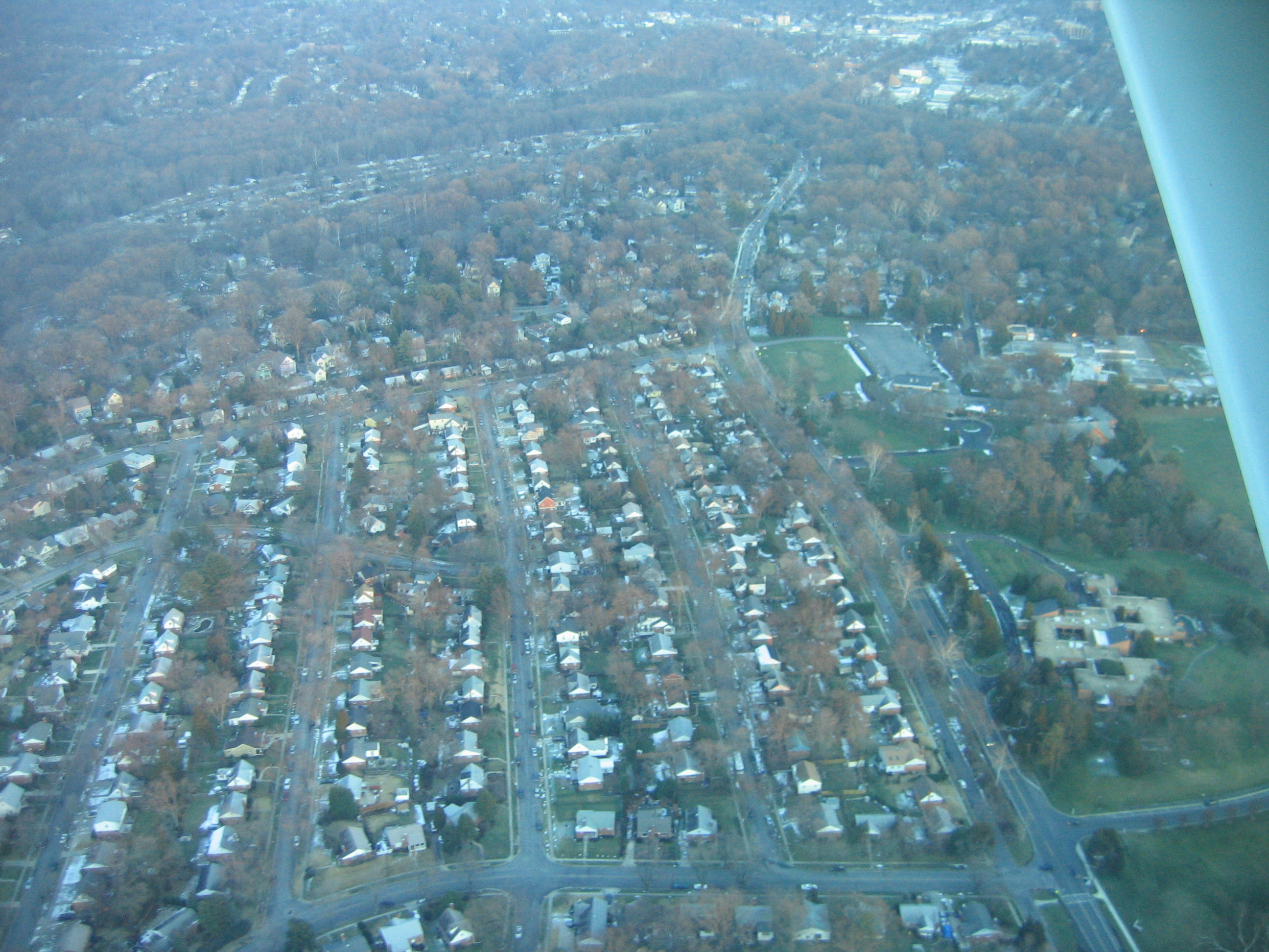 MD 547 (Strathmore Avenue) at Kenilworth Avenue, Garrett Park, MD, USA Object location39° 02′ 04.9″ N, 77° 05′ 41.8″ W